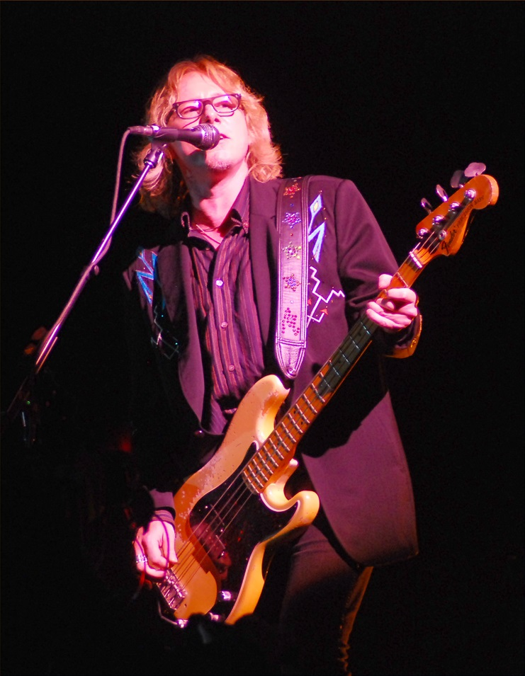 Mike Mills in an R.E.M. concert in Manchester